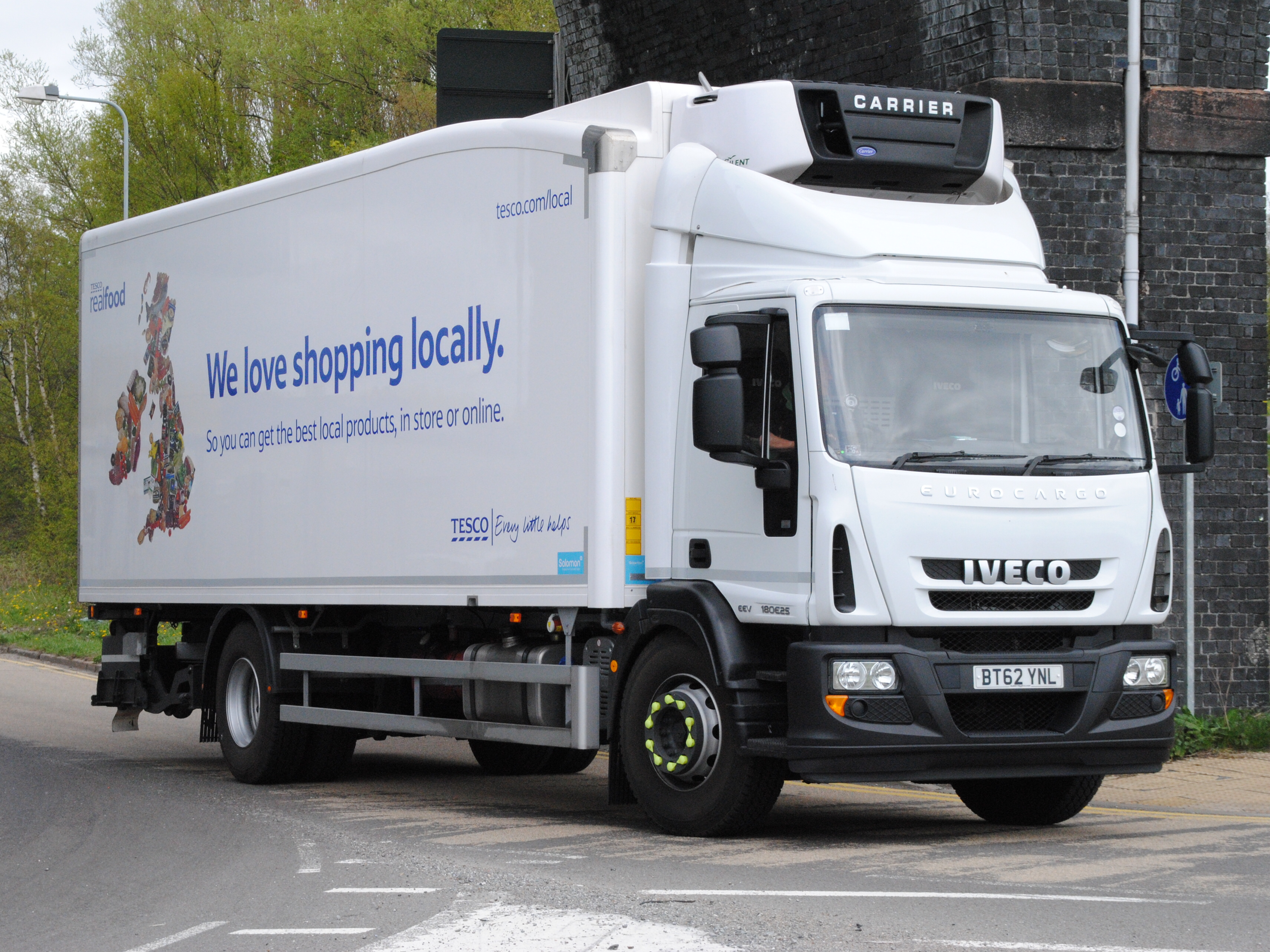 Iveco 180E25 Eurocargo Rigids. seen here in Widnes.